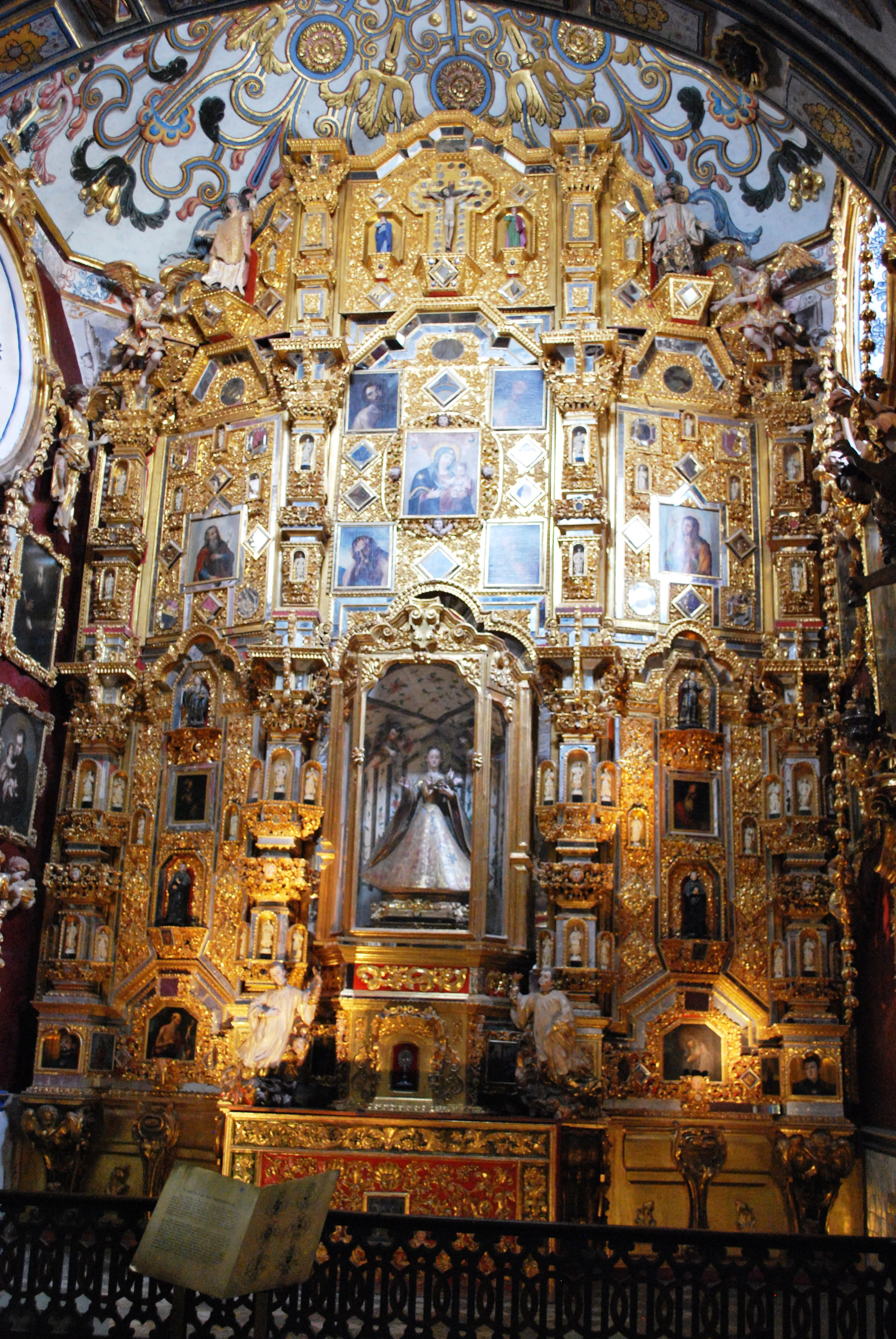 Main altar of the "domestic chapel" of the old monastery, now the Museo Nacional del Virreinato in Tepotzotlan, Mexico State